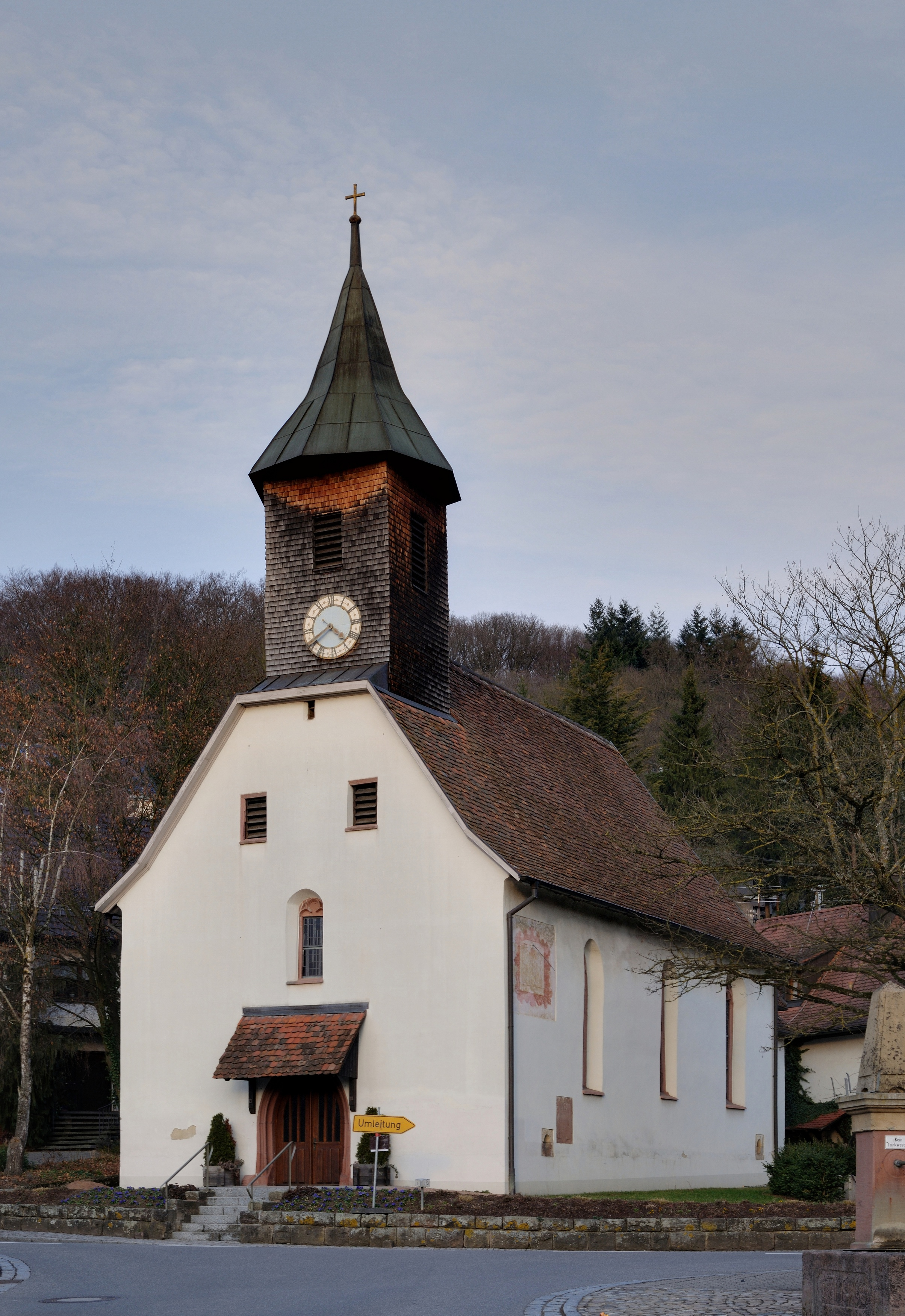 Riedlingen: Protestant Church